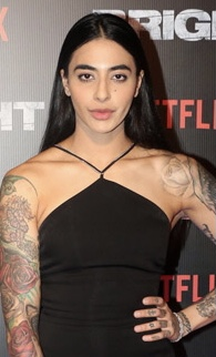 Gurbani Judge aka VJ Baani at premiere of Bright 6, Mumbai 2017.